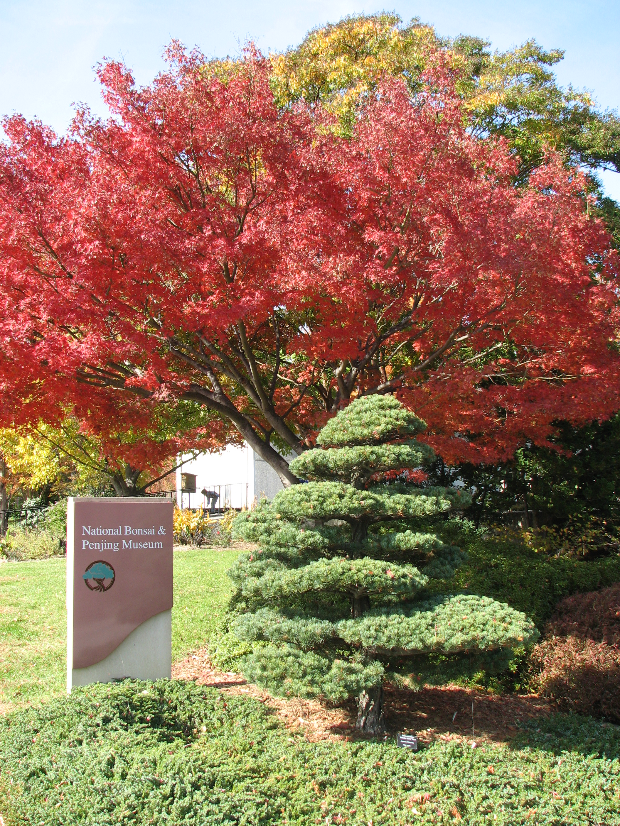 United States National Arboretum, Washington DC